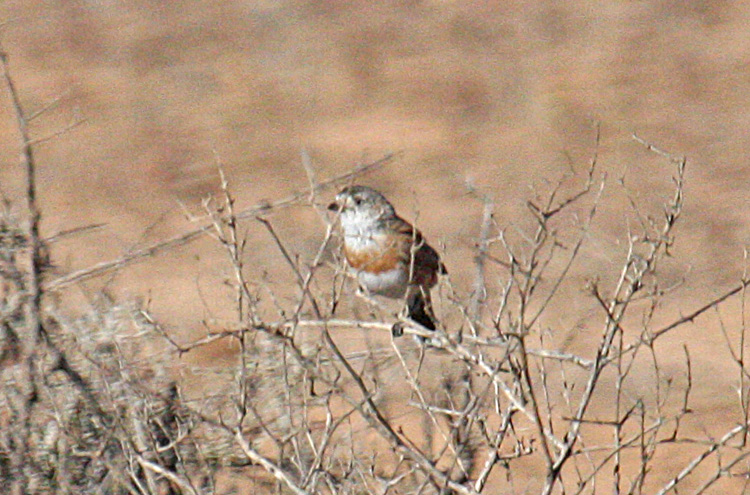 Chestnut-breasted Whiteface (Aphelocephala pectoralis), Strzelecki Track, South Australia.